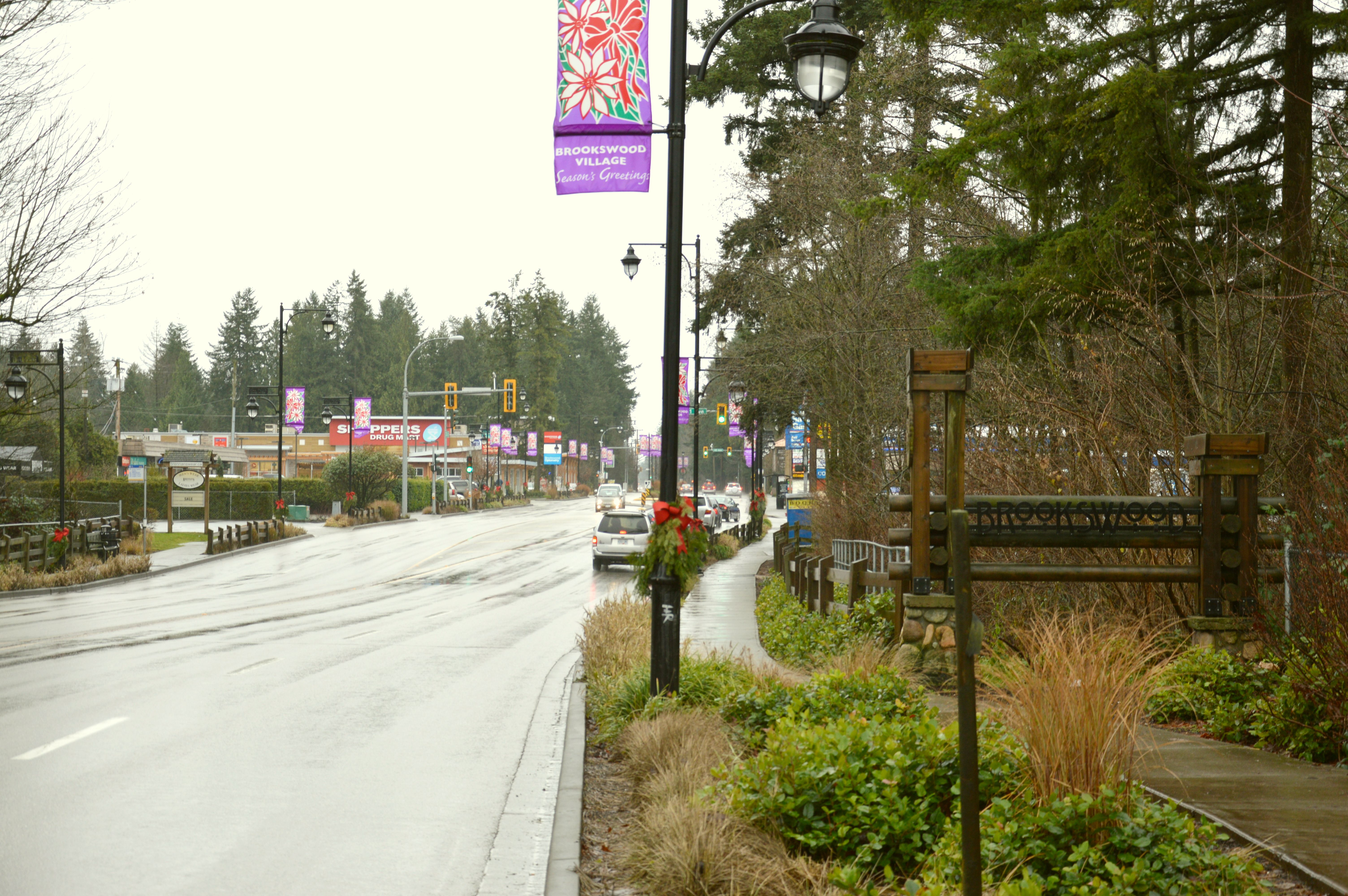 The commercial strip of 200th Street in the Brookswood neighbourhood of Langley, British Columbia, Canada